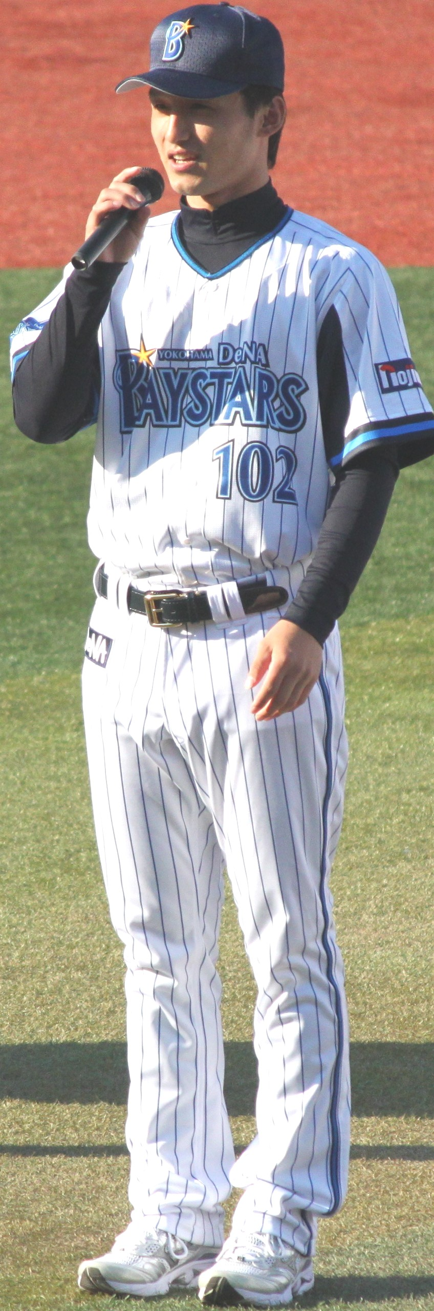 Toi Kamei, catcher of the Yokohama DeNA BayStars, at Yokohama Stadium.